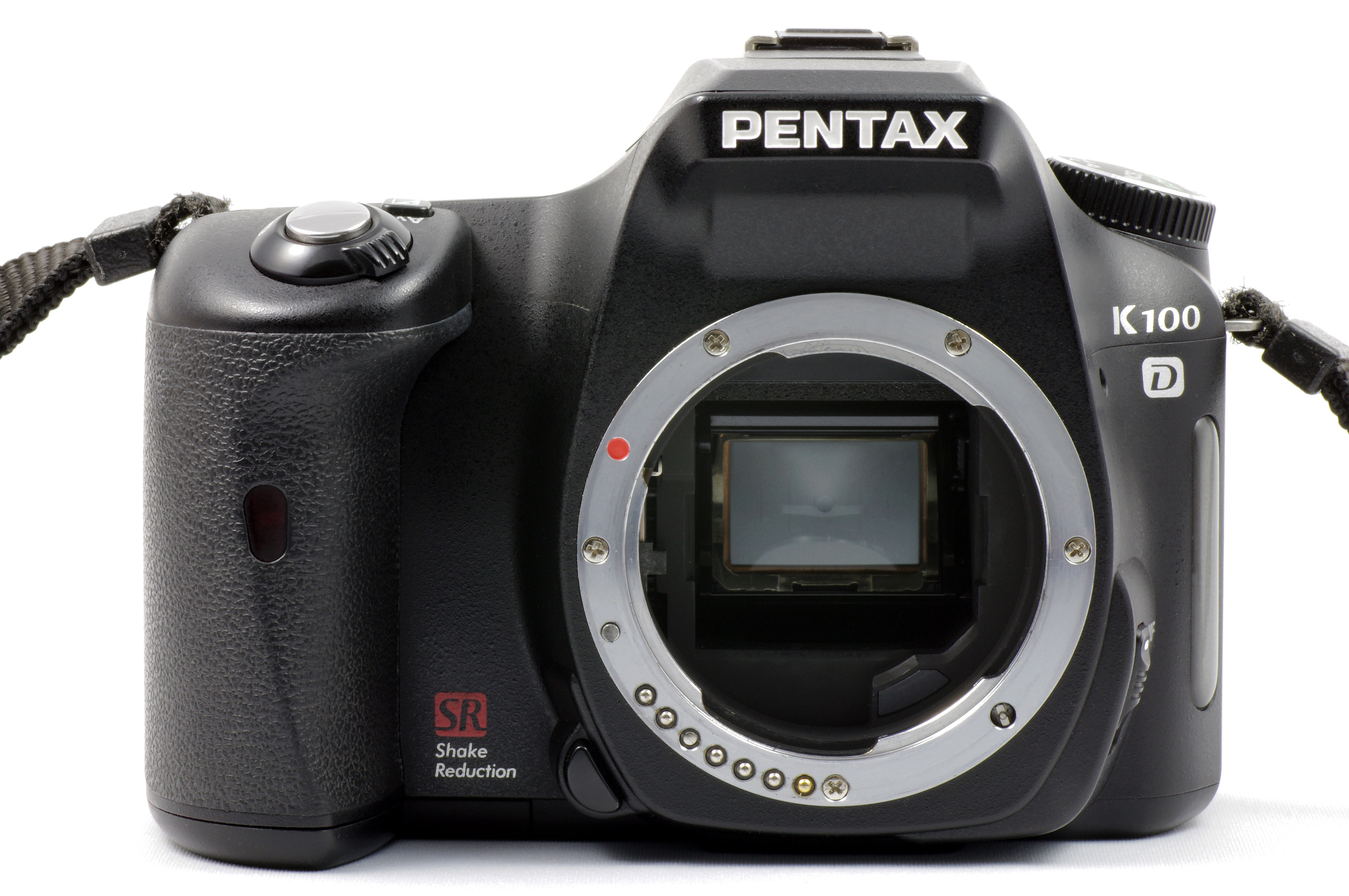 The digital reflex camera Pentax K100D, body without lens.